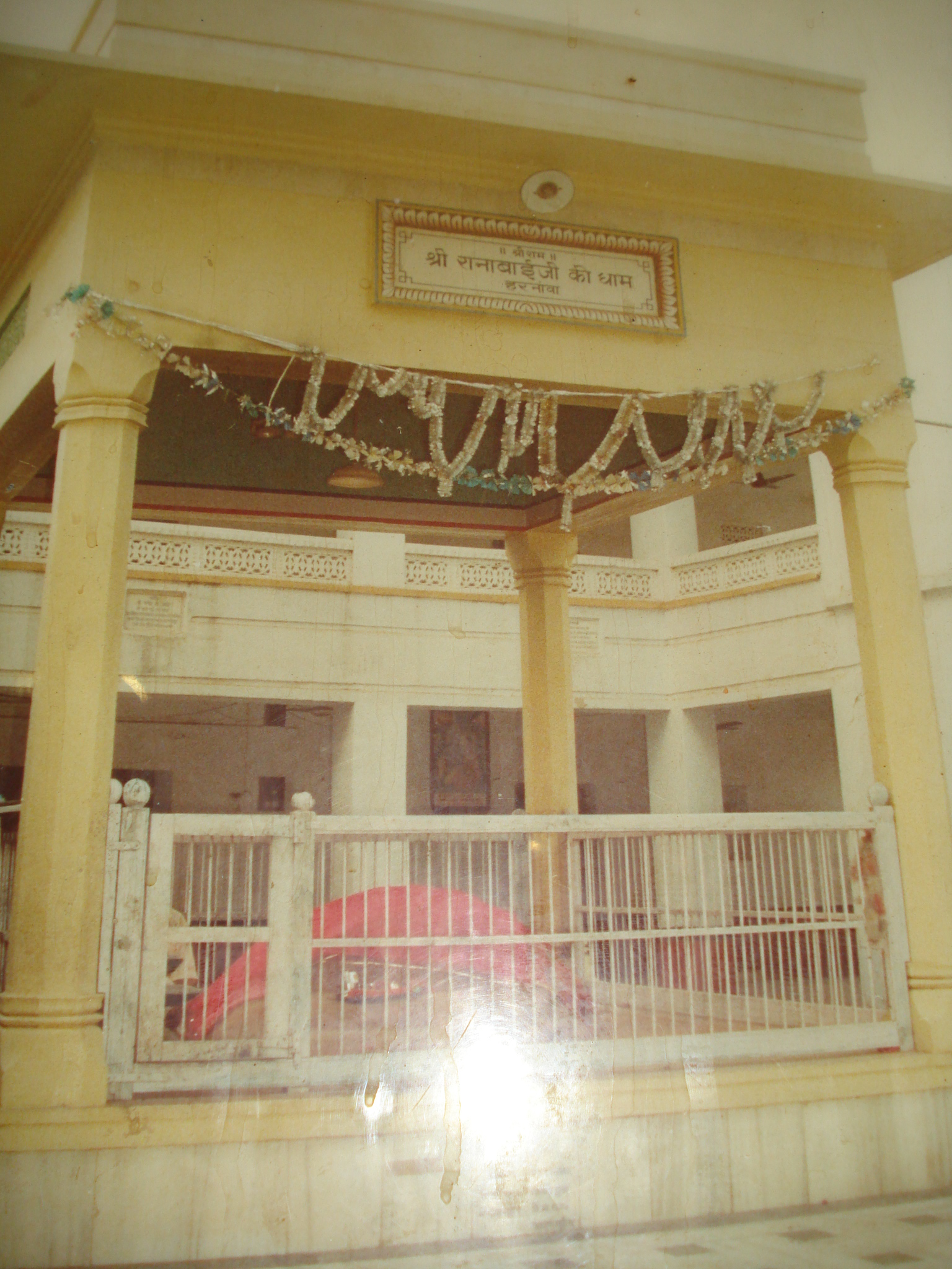 Samadhi of Ranabai at Harnawa, India